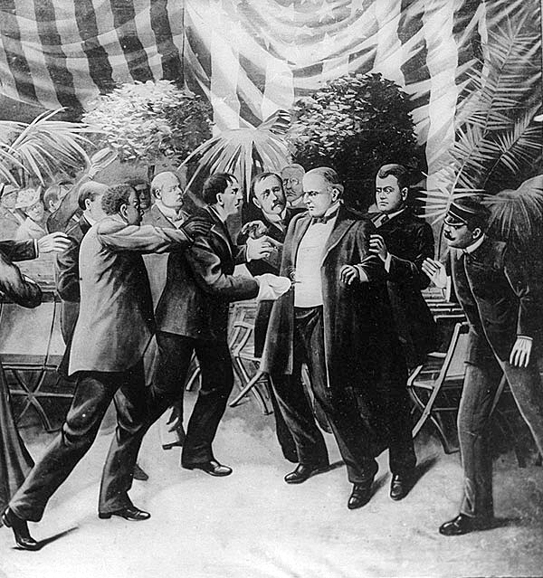 Clipping of a wash drawing by T. Dart Walker depicting the assassination of President William McKinley by Leon Czolgosz at Pan-American Exposition reception on September 6, 1901.